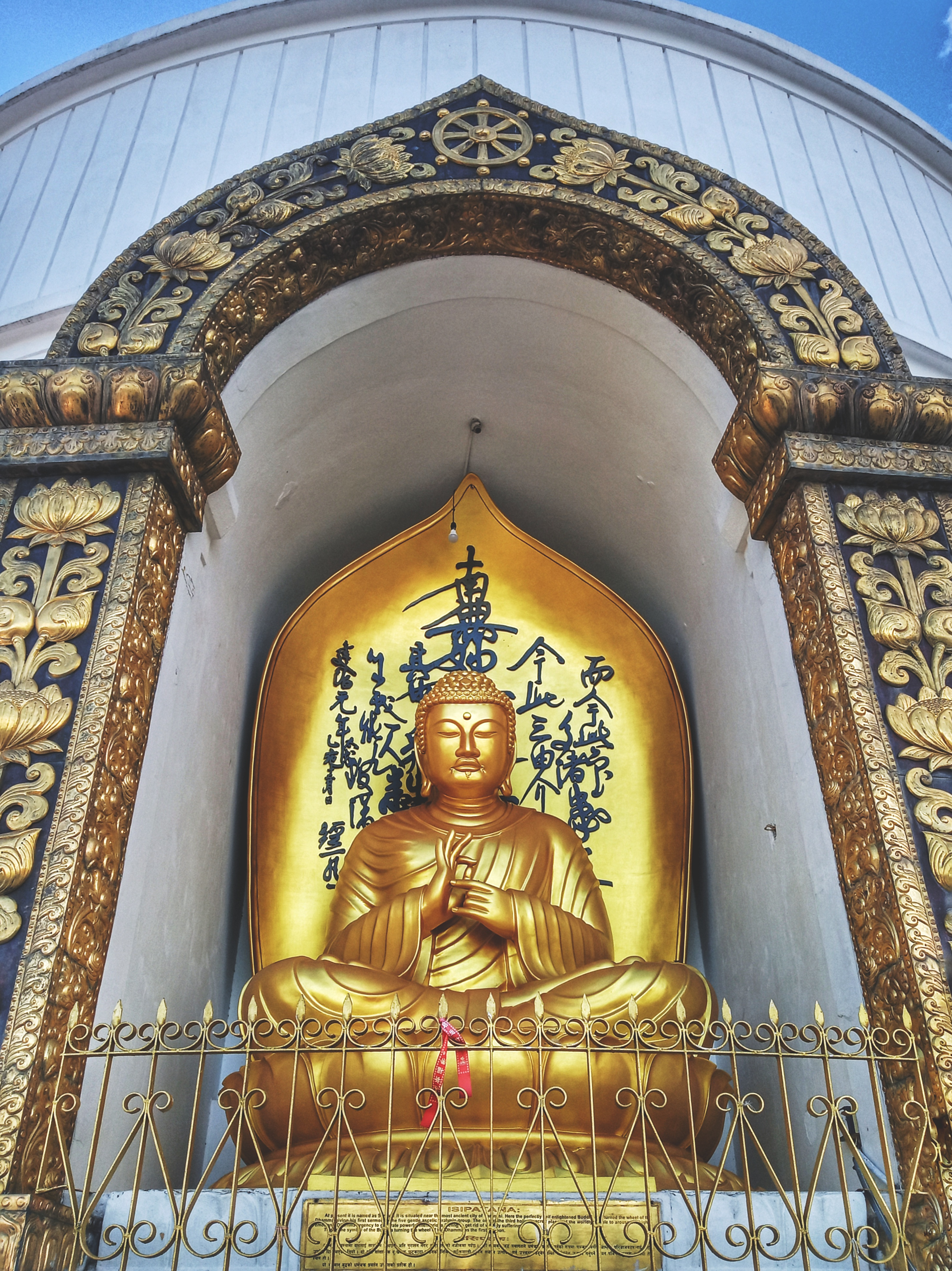 Golden Buddha Statue at Shanti Stupa, Pokhara